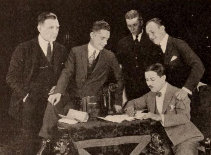 Actor Monty Banks signs contract to appear in a series of 2 reel films with Warner Bros., behind from left are Sam Warner, director Frank Griffin, Howard Hawks, and Jack Warner, on page 38 of the February 21, 1920 Exhibitors Herald.